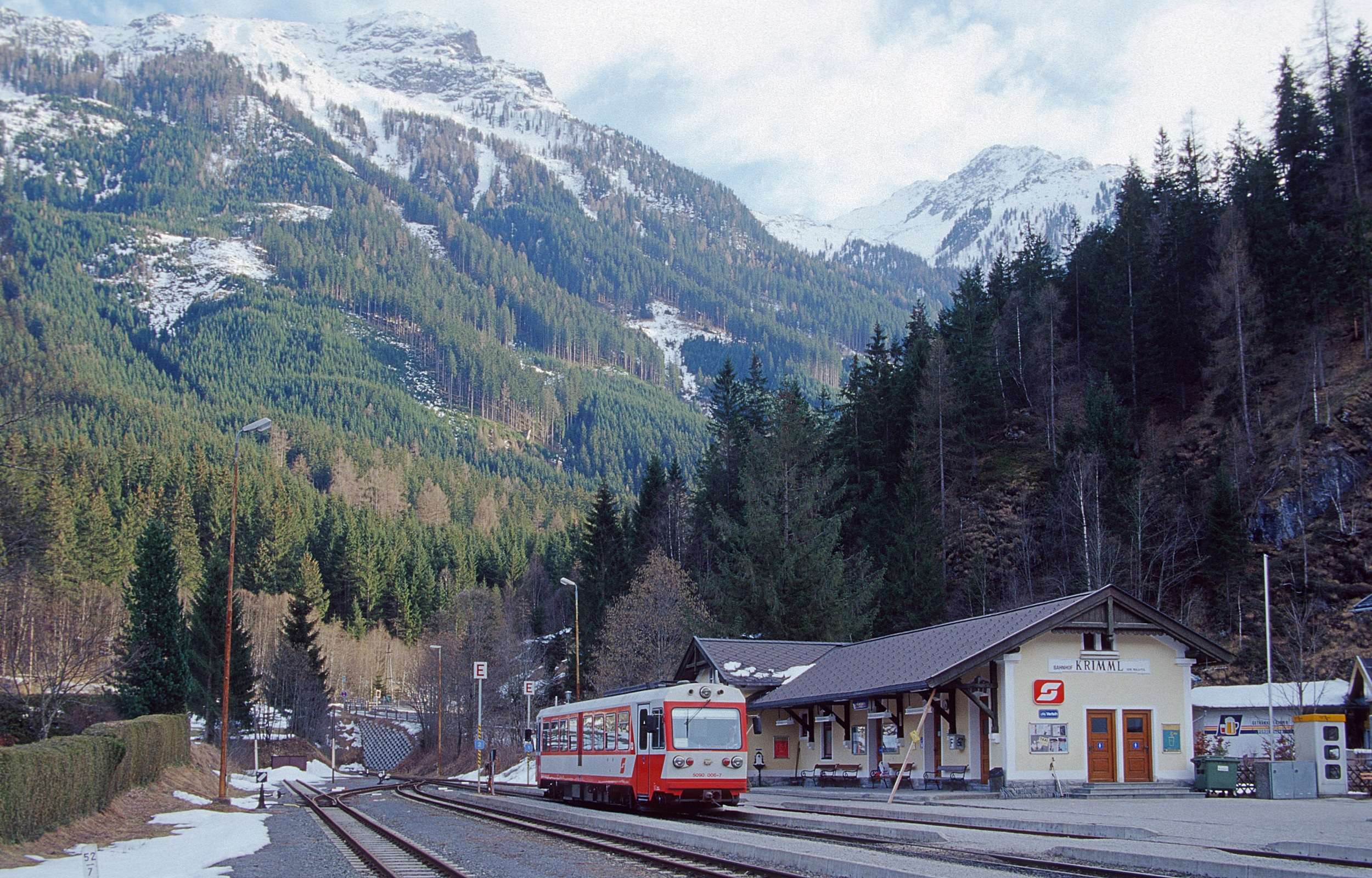 ÖBB 5090 006-7 at Krimml station, terminus of the Pinzgauer Lokalbahn.